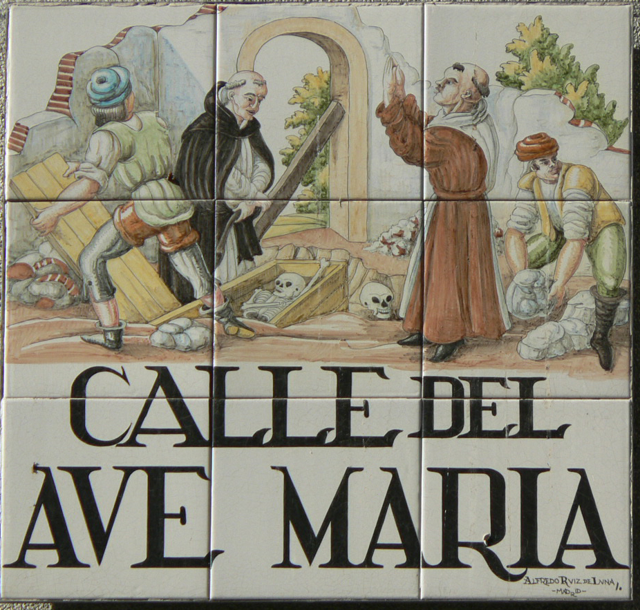 Sign of Calle del Ave María (street, Centro district) in Madrid (Spain).